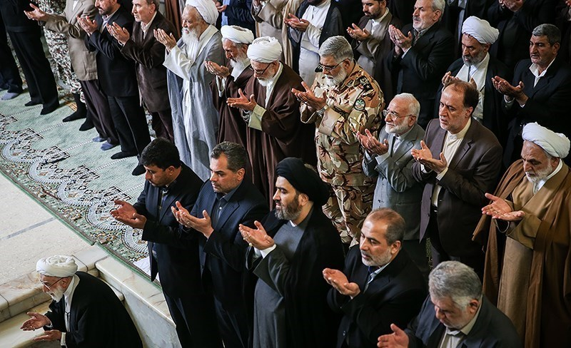 Friday prayer in Tehran, Iran.